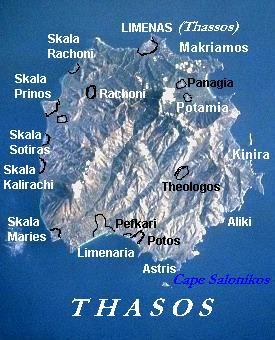 Labeled closeup from satellite image of the Greek island of Thasos, off the coast of Thrace, showing major town names.